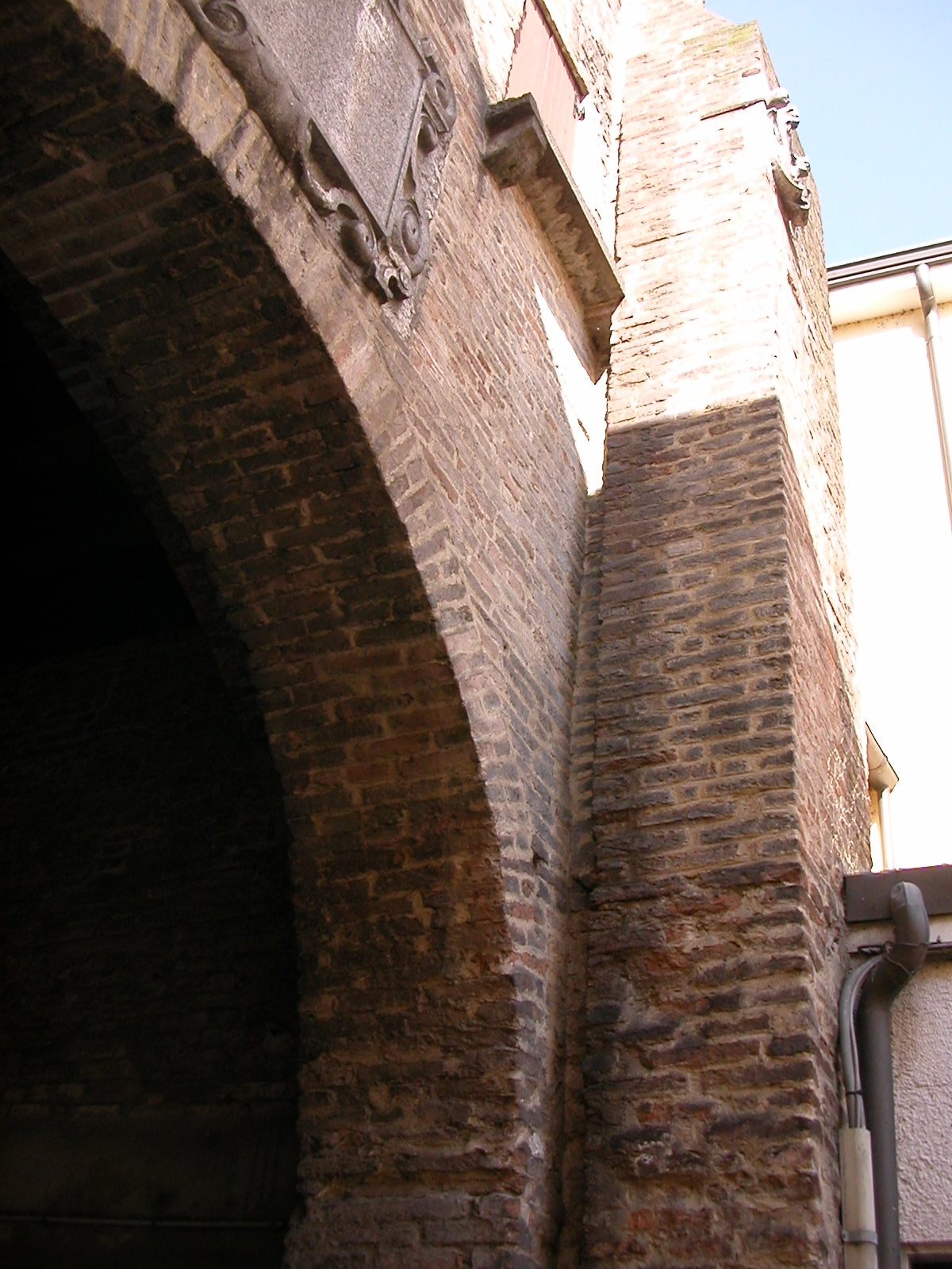 San Bortolo (Saint Bartholomew) gate in Rovigo, ancient door detail.